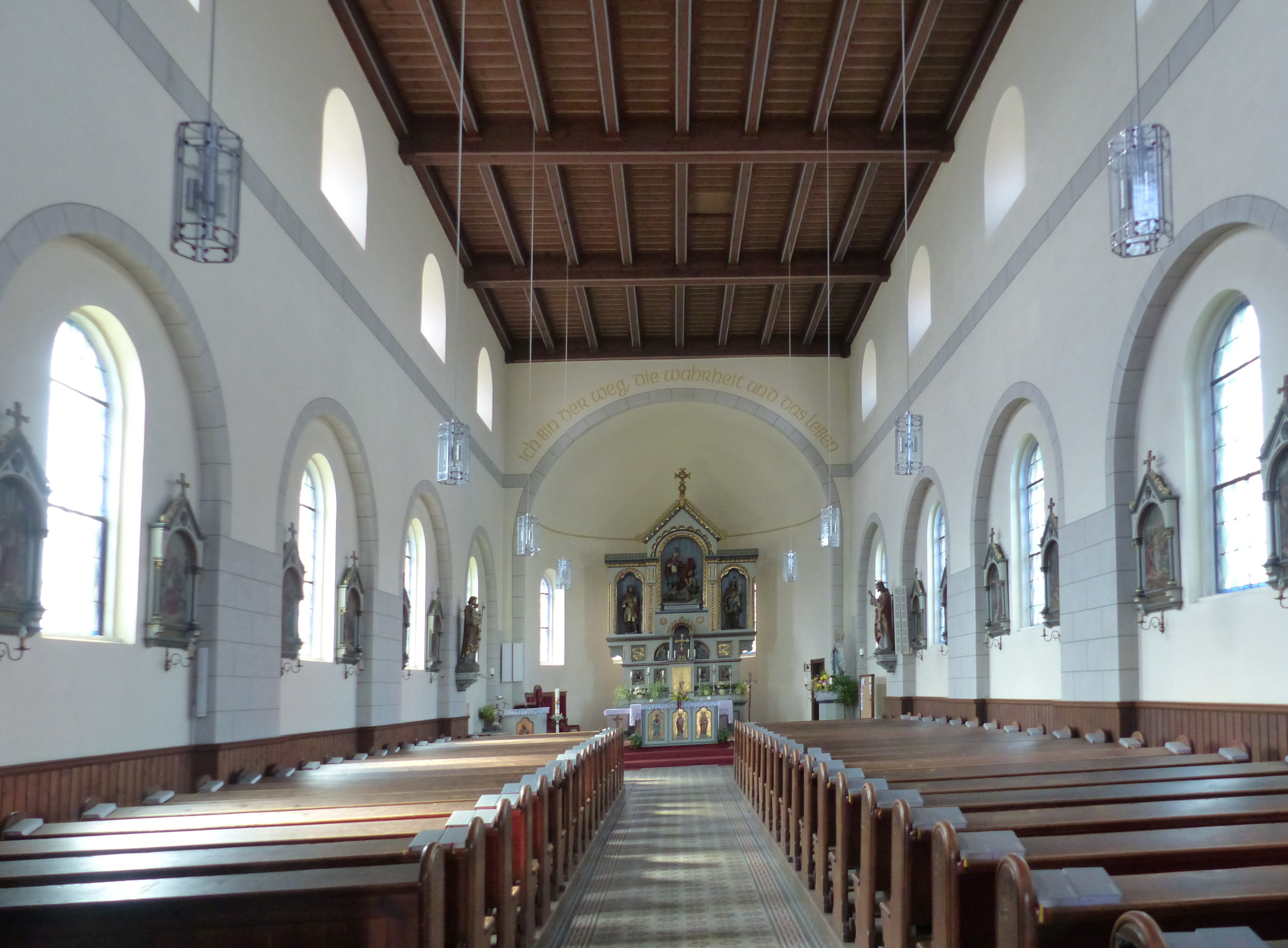 Gastern ( Lower Austria ). Saint Martin parish church - Interior.